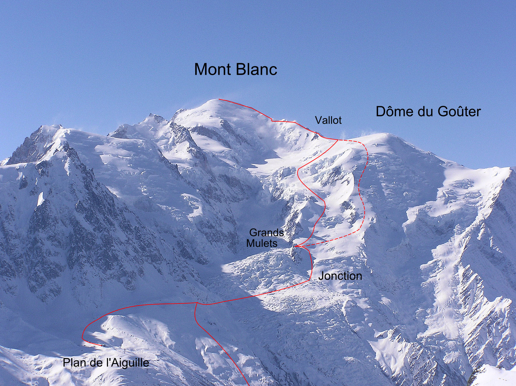 Mont Blanc - Grands Mulets route